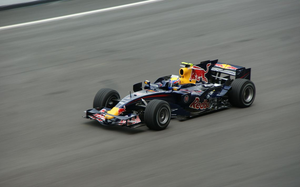 Mark Webber driving for Red Bull Racing at the 2008 Malaysian Grand Prix.